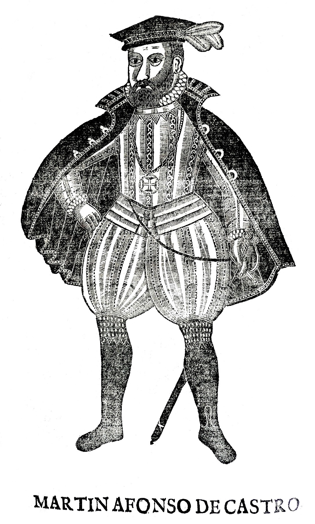 Portrait of governor-general of portuguese India Martim_Afonso_de_Castro